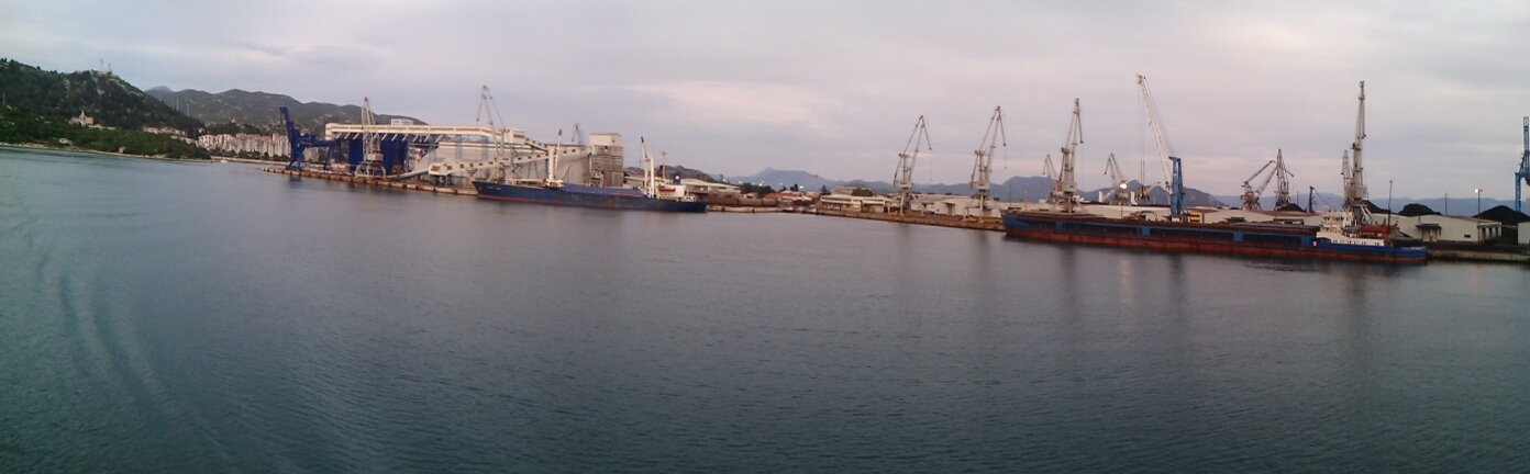 Panorama of Ploče